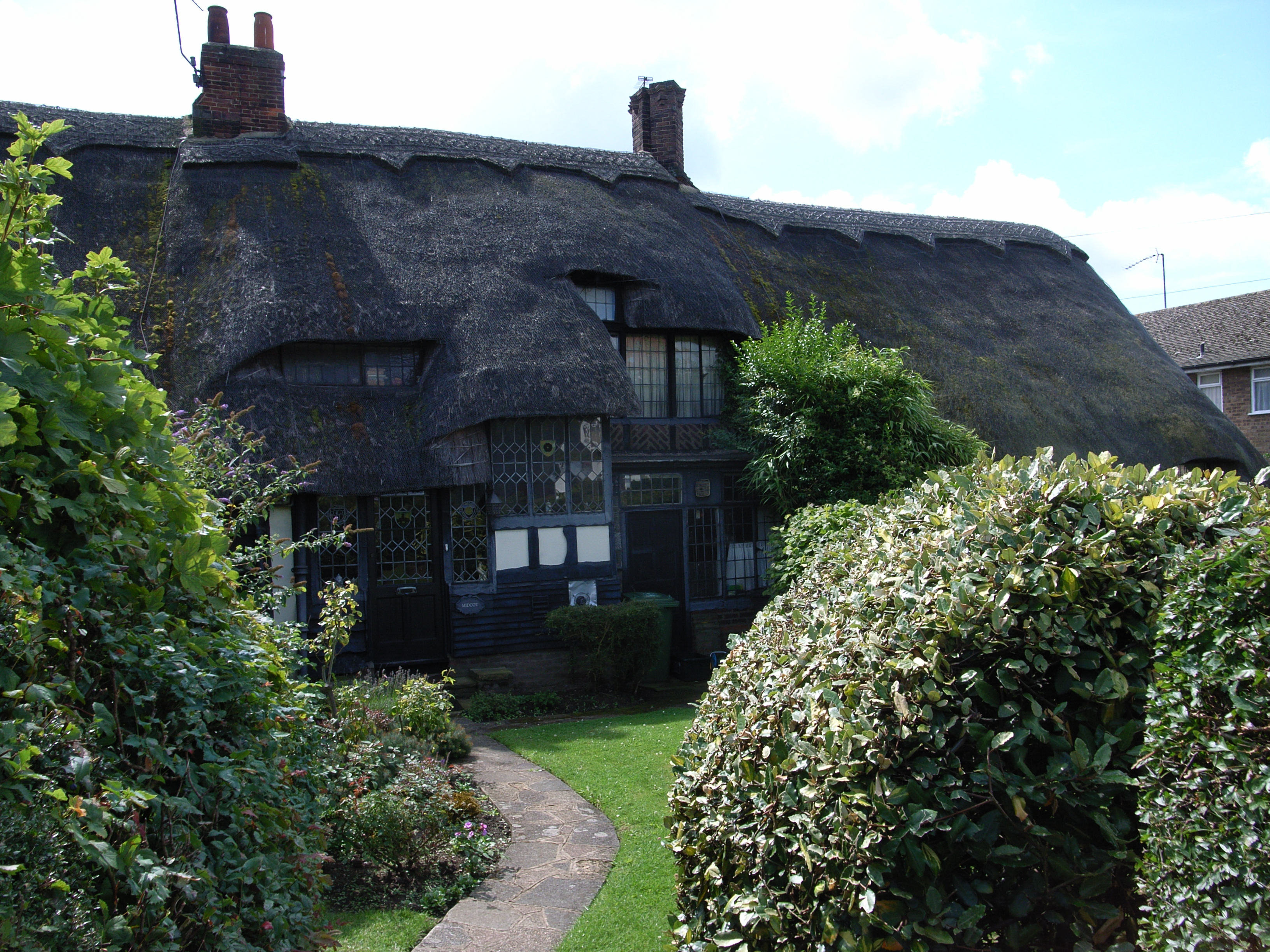 154 Slough Lane, Kingsbury, London NW9